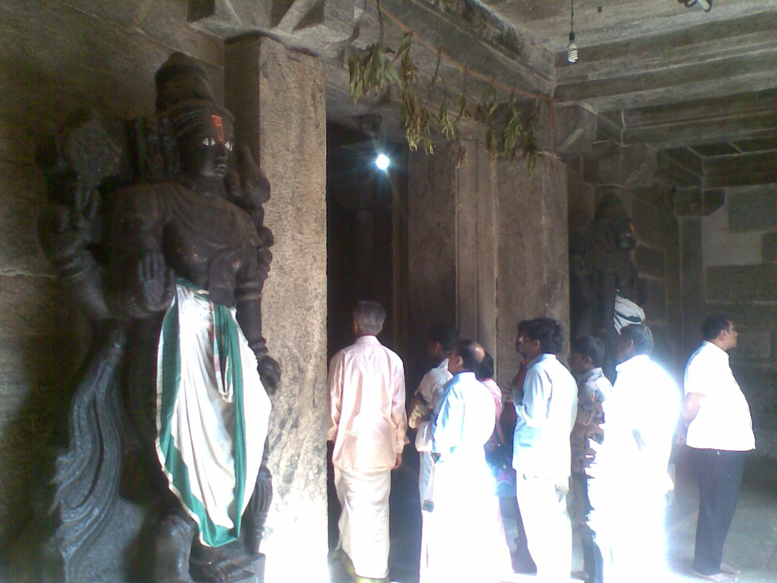 Sri Ranganathaswamy Temple, Srirangapatna